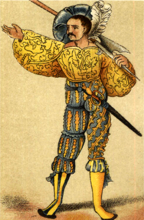 lansquenet